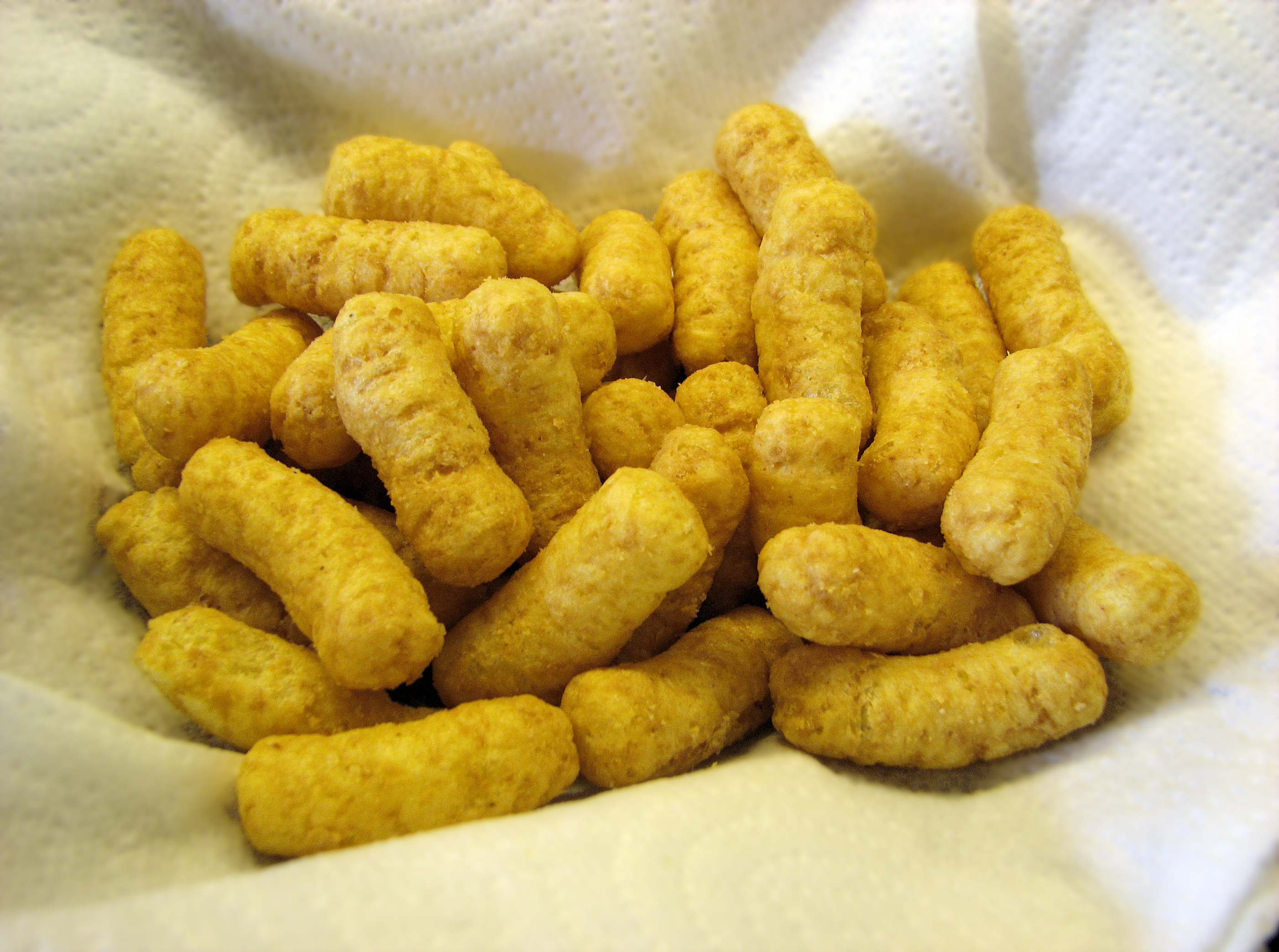 Close-up of Bamba snack, to illustrate texture, colour and shape. Bamba is an Israeli snack composed of puffed cornmeal and flavored like peanut butter. It is a Kosher food product.